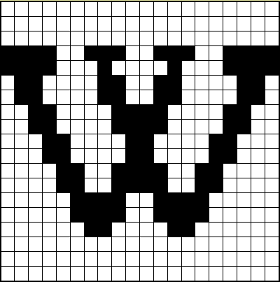 Friendship bracelet alpha pattern of Wikipedia.